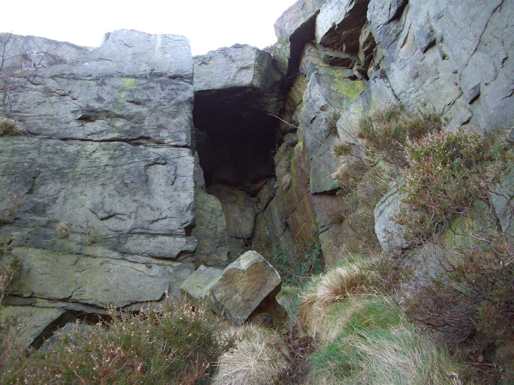 The Dragons Den, a small cave on Wharncliffe Crags